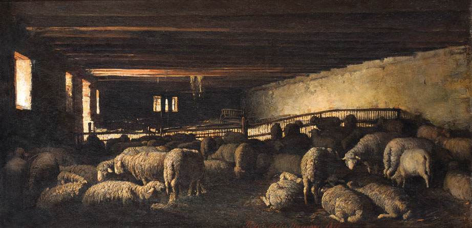 Pállik Béla hungarian painter: Birka-akol (Sheep-fold). Size: 44 cm x 88 cm. Oil. sighned: Pállik Béla, München, 1972.